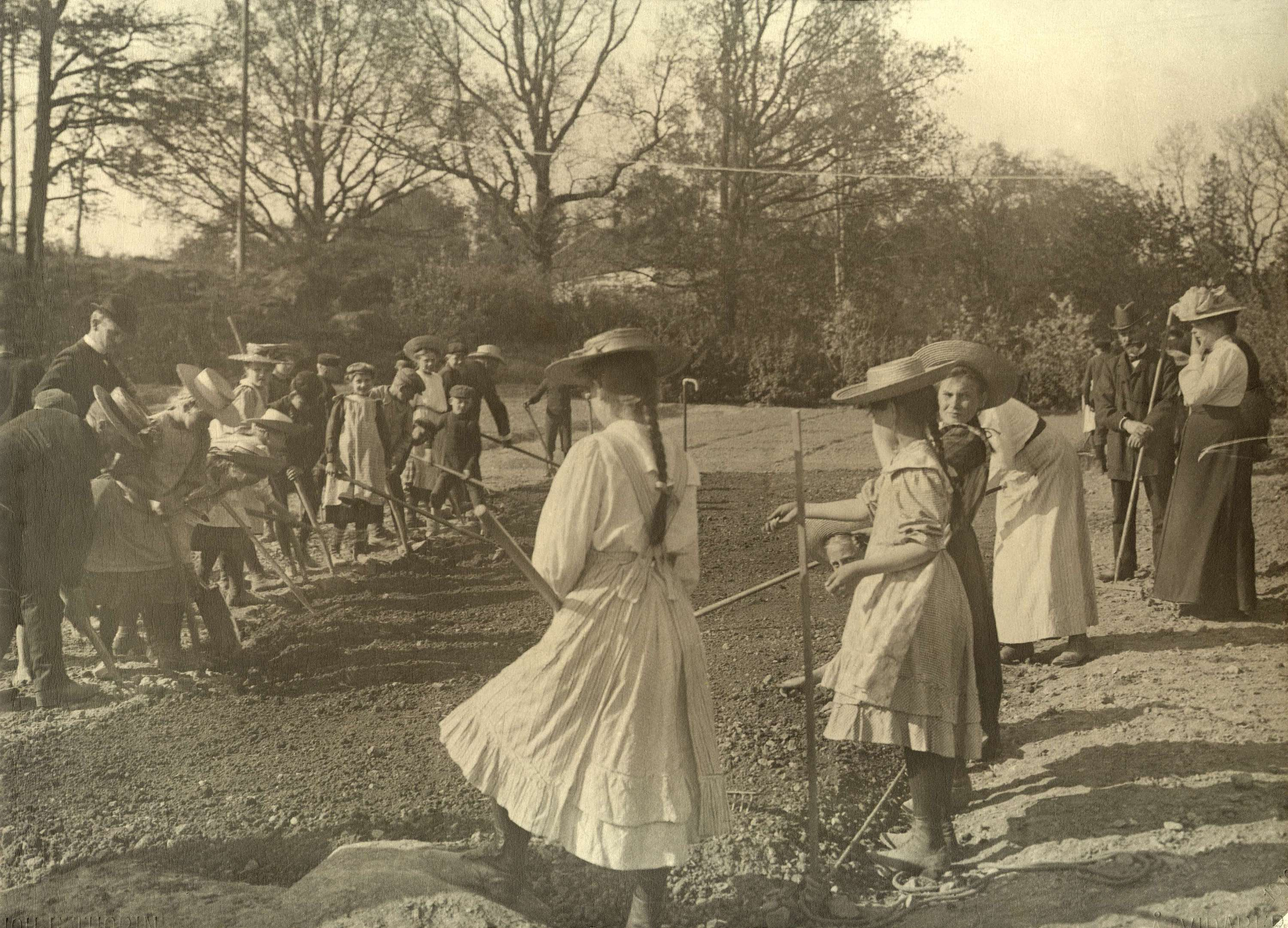 Children raking in the school garden, Åtvidaberg, 1910